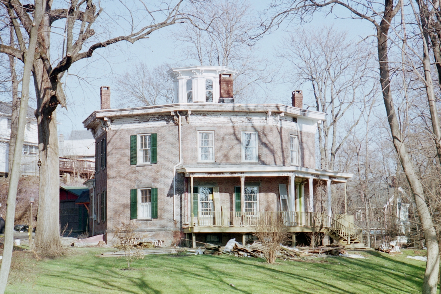 Octagon house on Division Street, Catskill, NY